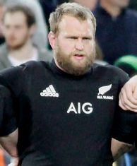 2017.08.19.20.03.18-NZL anthem 2017 Rugby Championship, Bledisloe 1, Australia vs New Zealand, 19th August, ANZ Stadium, Sydney